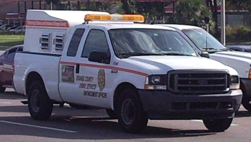 Ford F-250 Super Duty Orange County police photographed in Orlando, Florida, USA.